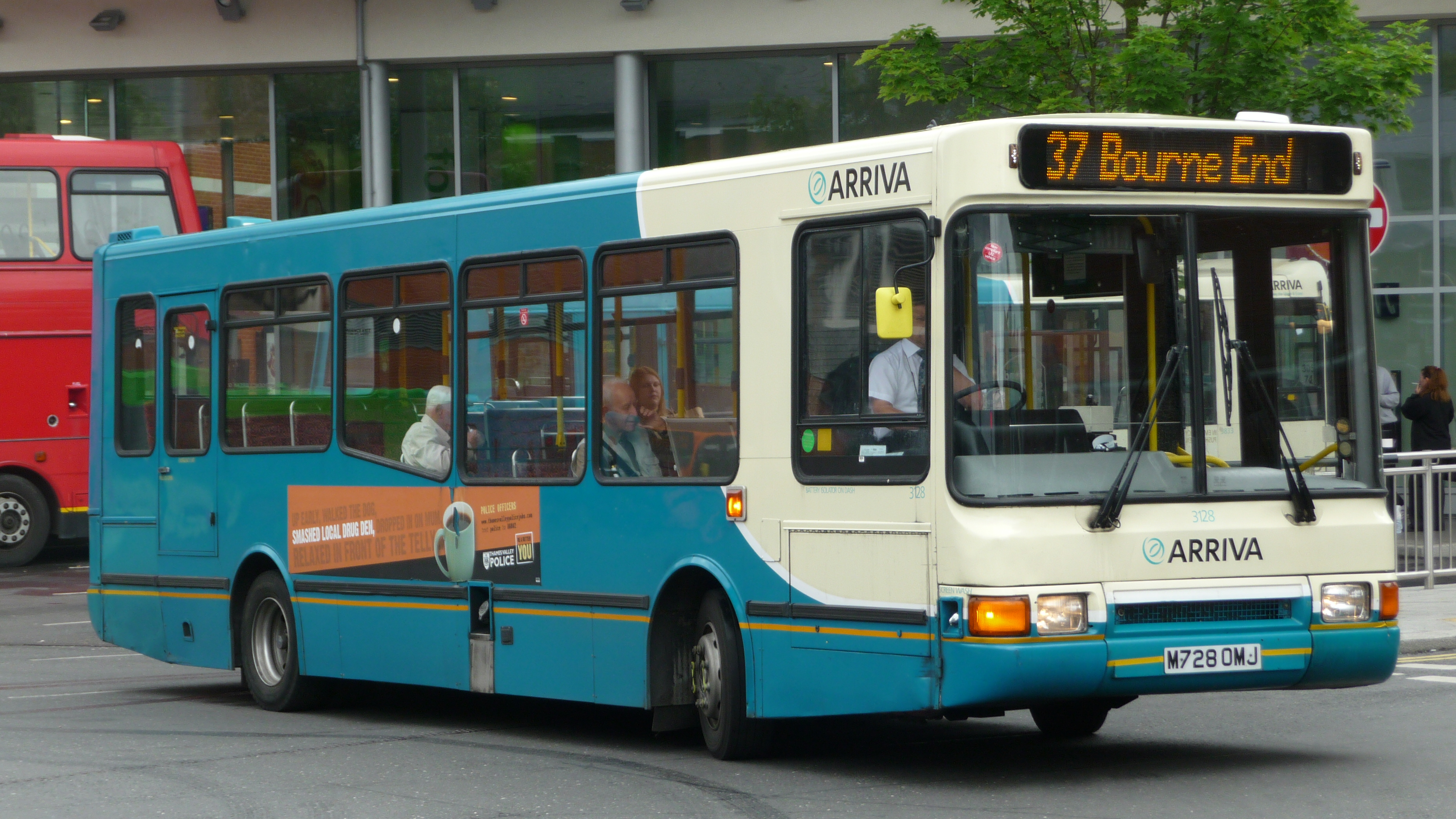 Arriva The Shires 3128 (M728 OMJ), a Volvo B6/Northern Counties Paladin, leaving High Wycombe bus station into Bridge Street, High Wycombe, Buckinghamshire, on route 37.